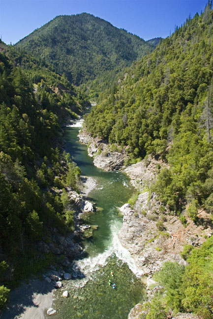 Salmon River, California, with kayakers; above Wooley Creek confluence. Photo credit: Scott Harding /